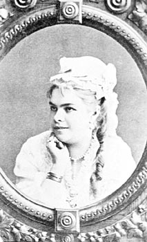 Catherine Chislova (Russian: Екатерина Гавриловна Числова) (September 21, 1846 - December 13, 1889) was a Russian ballerina. She was the mistress of Grand Duke Nicholas Nikolaevich of Russia (1831-1891); they had five children. Jekaterina Gawrilowna Tschislowa